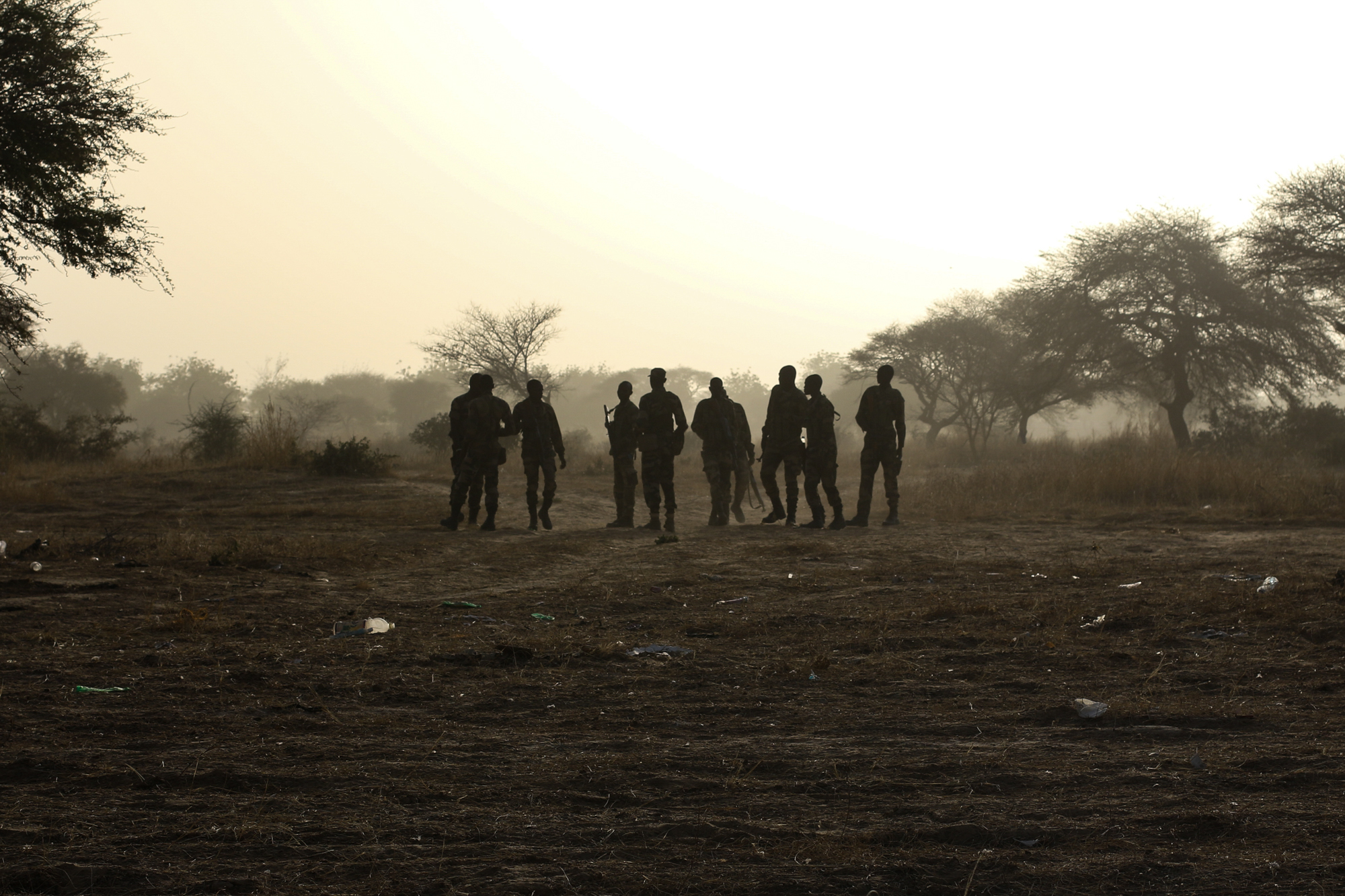 Nigerien soldiers gather before small unit tactics training during Exercise Flintlock 2017 in Diffa, Niger, March 3, 2017. Flintlock is an annual Special Operations Forces exercise designed to enhance the military capability of partner nations throughout North and West Africa. (Photo by U.S. Army Sgt. 1st Class Christopher C. Klutts) Unit: U.S. Africa Command DVIDS Tags: Africa; Operations; U.S.; Canada; Australia; Special; Belgium; Exercise; Infantry; Army; Small Unit Tactics; SOCAFRICA; Flintlock; Niger; SOCAF; Diffa; Flintlock17